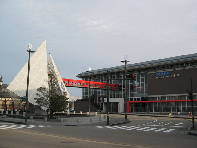 Mikawa Station on the JR West Hokuriku Main Line, in the city of Hakusan, Ishikawa Prefecture, Japan